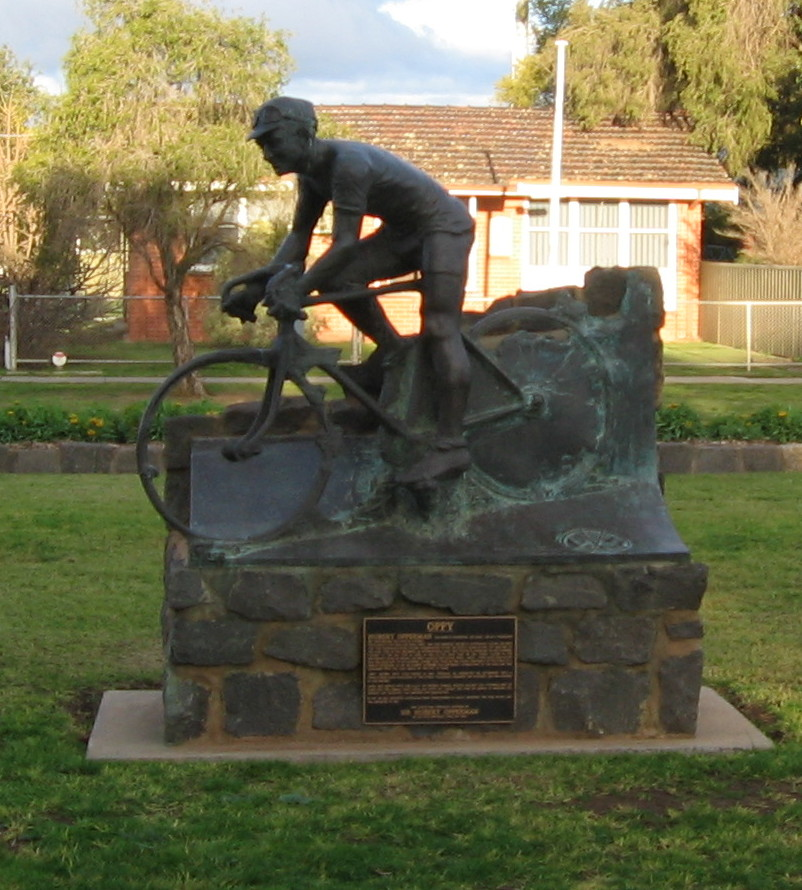 Statue of Hubert Opperman at Rochester, Victoria